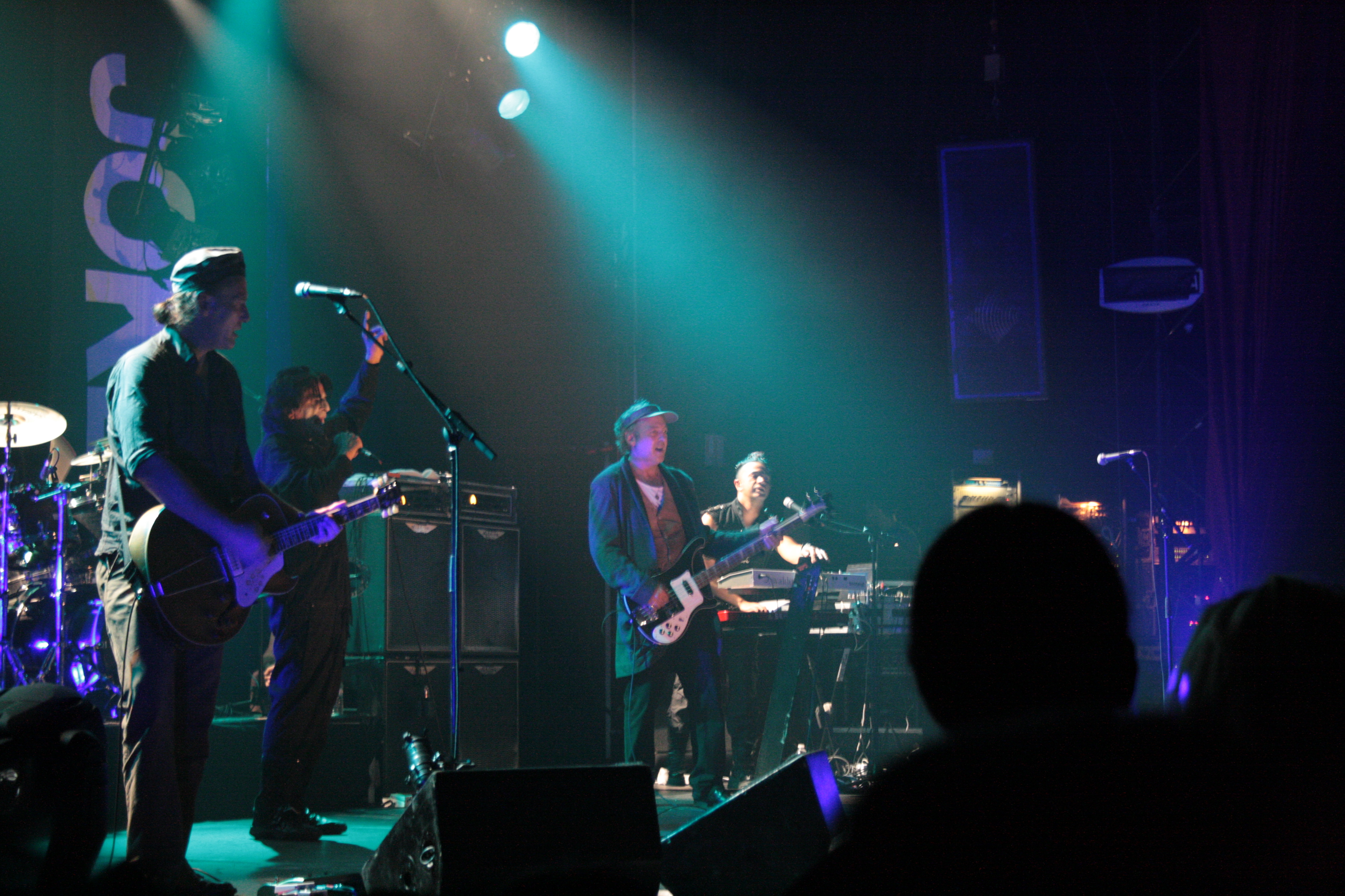 Killing Joke performing live in Paris, le Bataclan, on sept. the 27 th, 2010.